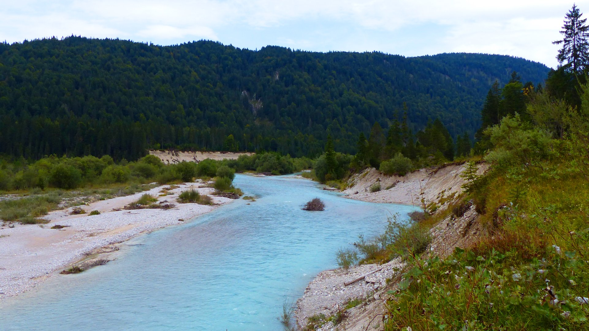 Isar valley between Wallgau and Vorderriß (Upper Bavaria)